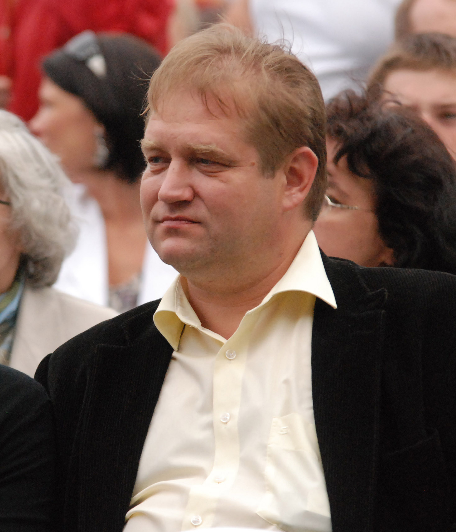 Ivari Padar at the 2009 Estonian Song Festival. Photo: Egon Tintse.